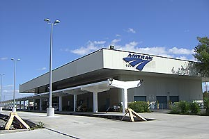 Miami Amtrak station in February 2008